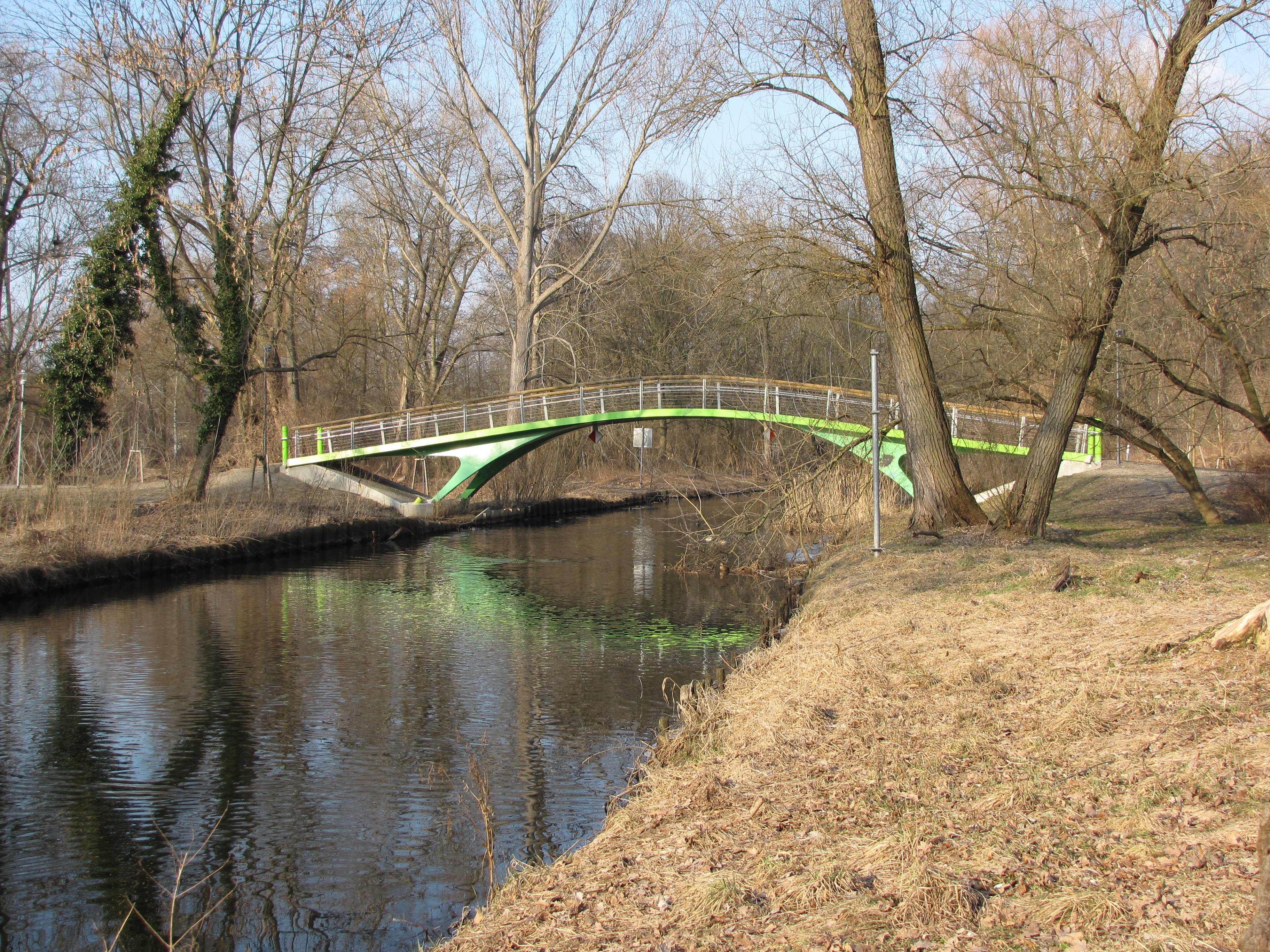 Brücke über den Nottekanal, in der Nähe von Schloss Zossen, Stadt Zossen, Brandenburg